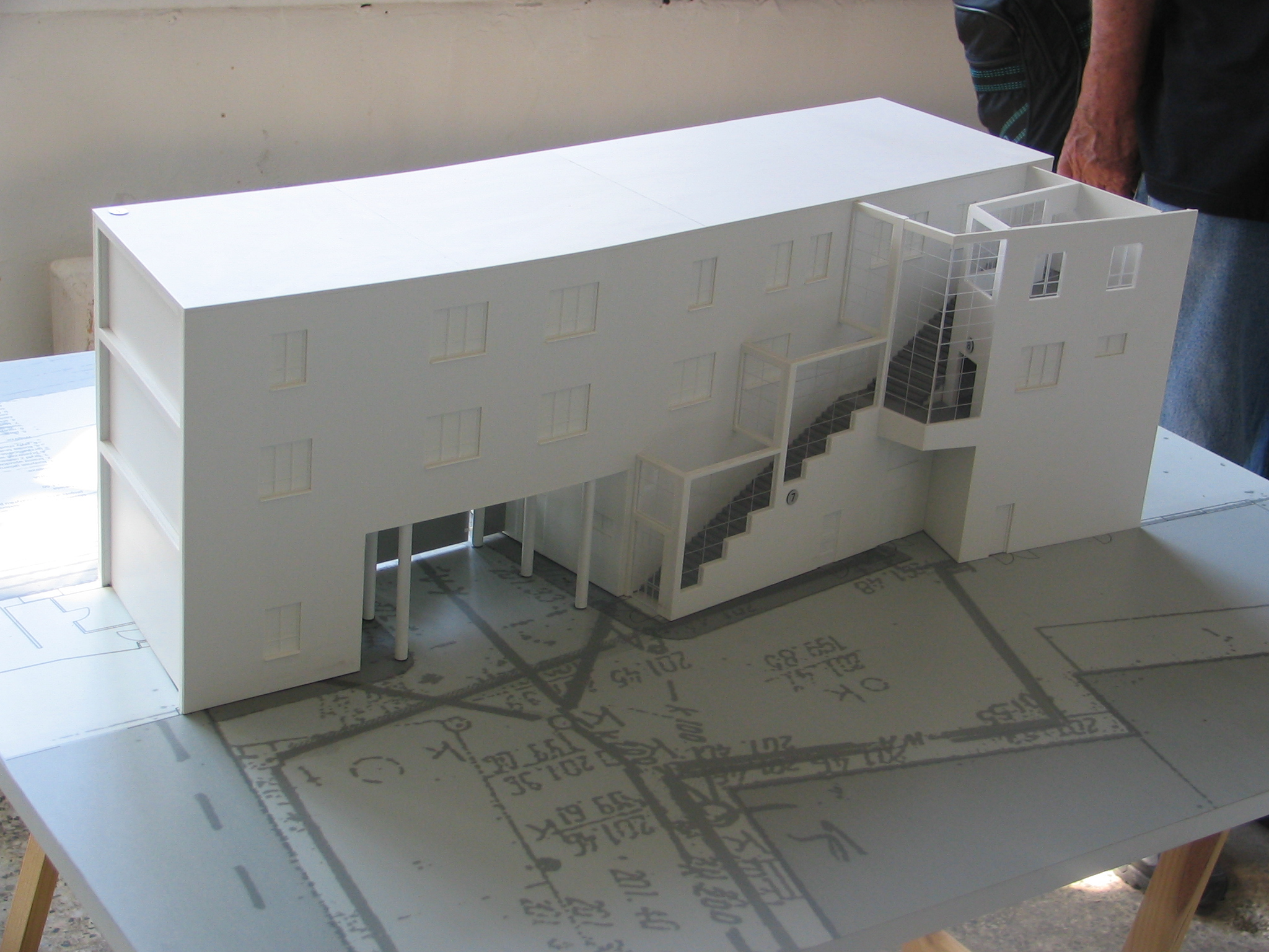 Kraków, Zabłocie: "Rekord" Factory, Later Known as "Schindler's Factory" - A Model Prepared by Kraków Municipality for a Museum Planned to be Opened on Site